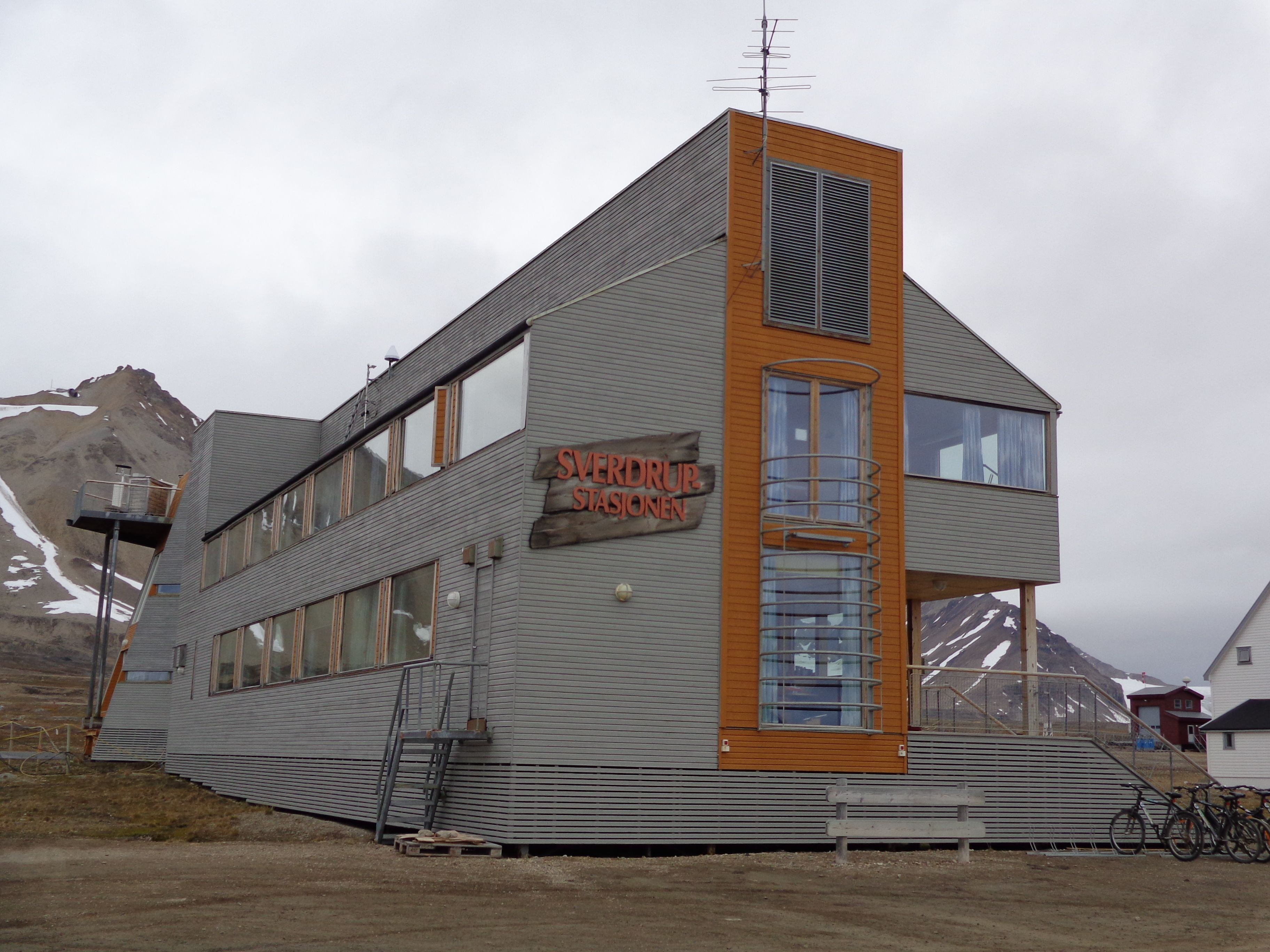 Sverdrupstasjonen in Ny-Ålesund, Svalbard